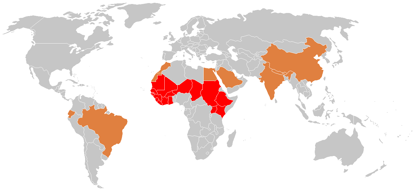 Countries with reported cases of meningitis. This map does not entirely reflect the risk posed by meningitis, because there are isolated cases reported around the world each year. This map does show the epidemic "belt of meningitis" in Africa that occurs every year at the end of the dry season.